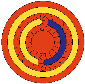 Shieldpattern of Primani (ex LEG I Italica) and Undecimani (ex LEG XI Claudia) about 400 AD. Source: Notitia Dignitatum Orientis VI